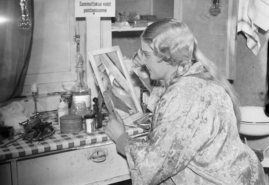 Irja Aholainen finishes the make-up in the unpretentious dressing room of the opera.